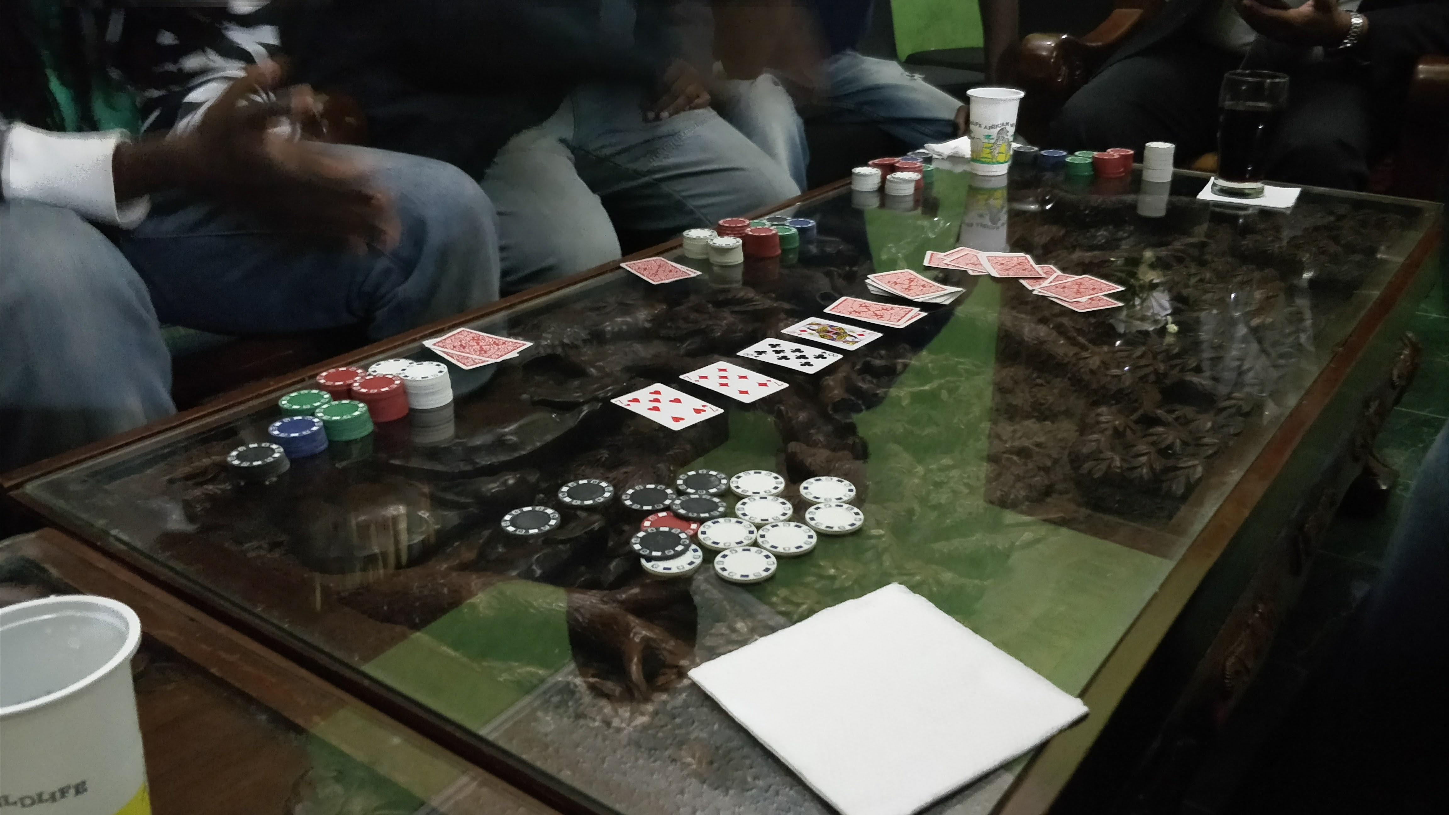 Playing idnpoker This is an image with the theme "Play" from: Kenya